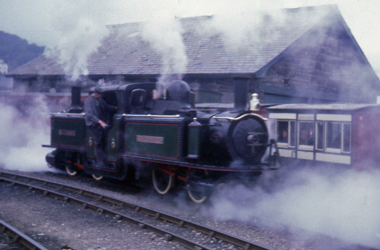 Ffestiniog Railway Earl of Merioneth at Porthmadog in August 1967